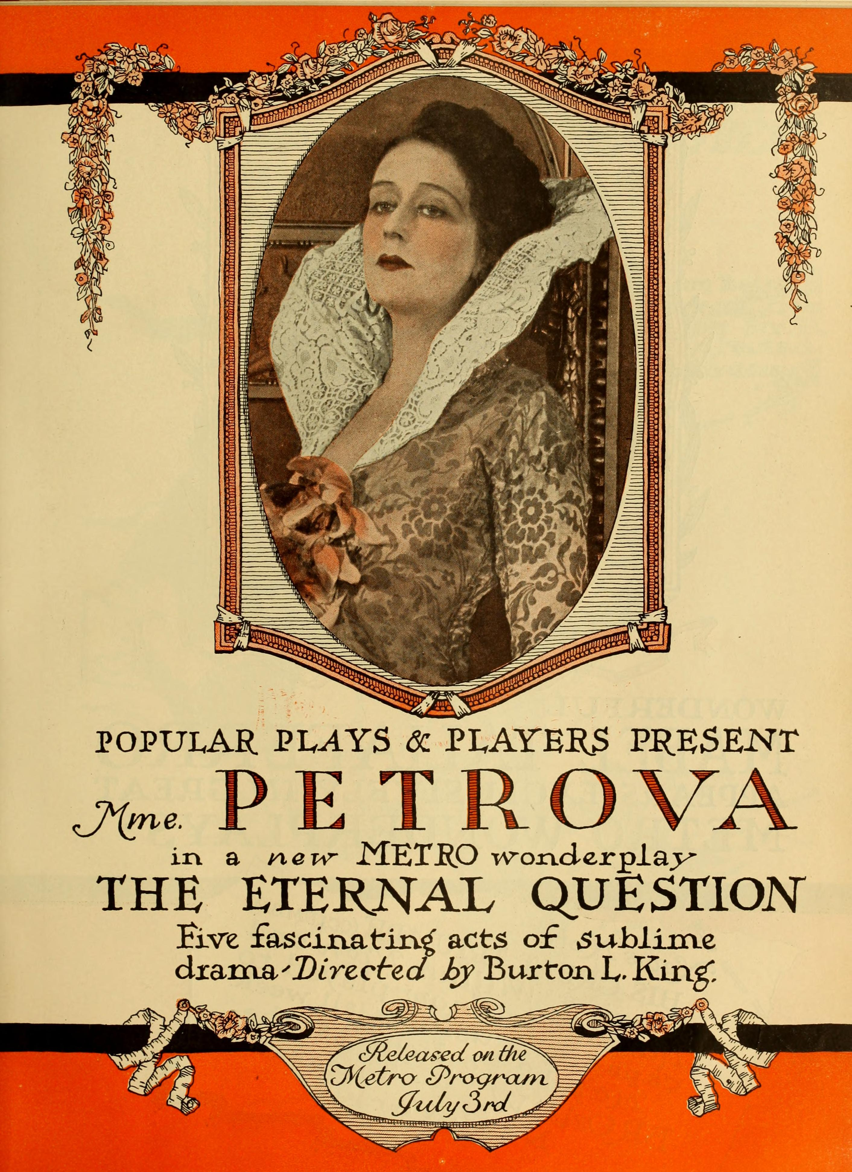 Advertisement in The Moving Picture World for the American film The Eternal Question (1916).